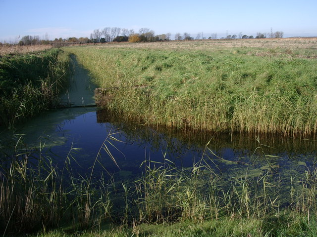 Ditches on Graveney marshes